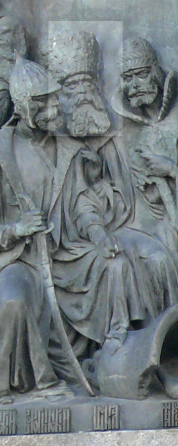 Mikhail Vorotynsky on the Monument «Millennium of Russia» in Veliky Novgorod